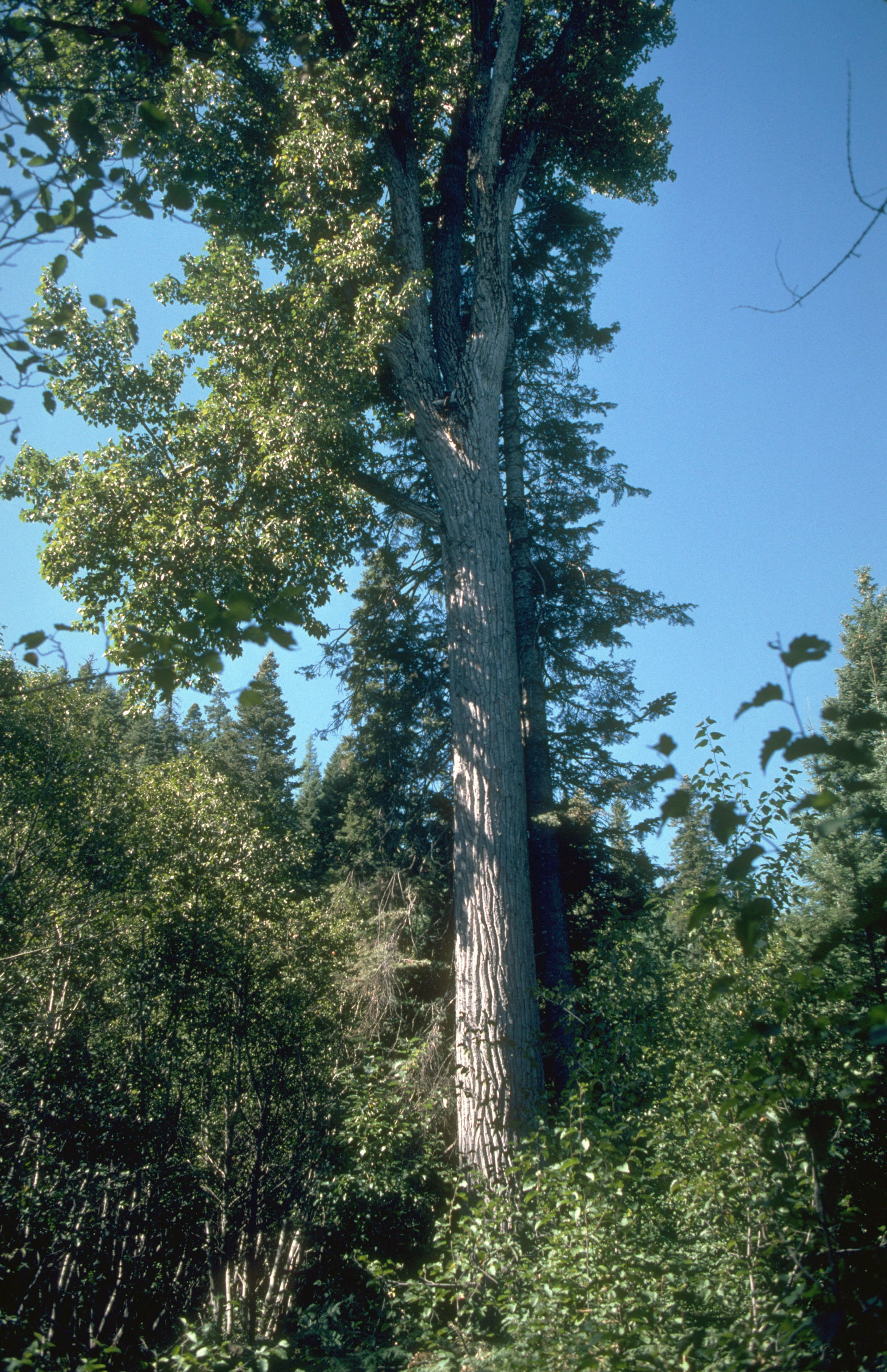 Populus trichocarpa mature tree in mixed forest. Lookingglass Creek, Walla Walla Ranger District, Umatilla National Forest, northeastern Oregon.